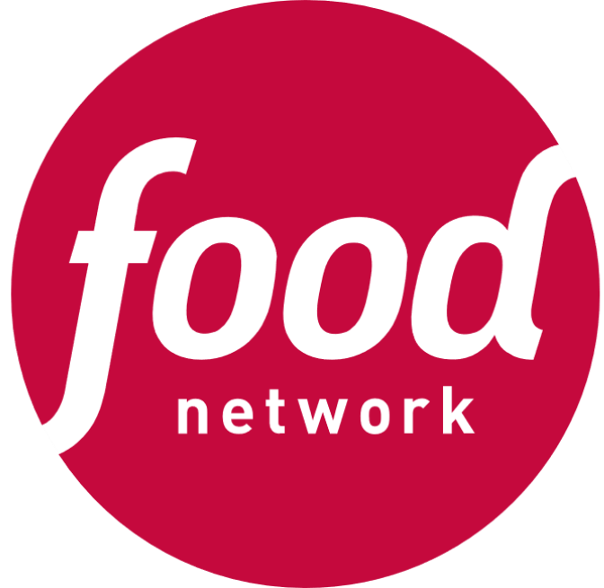 New Food Network Logo as of January 2013